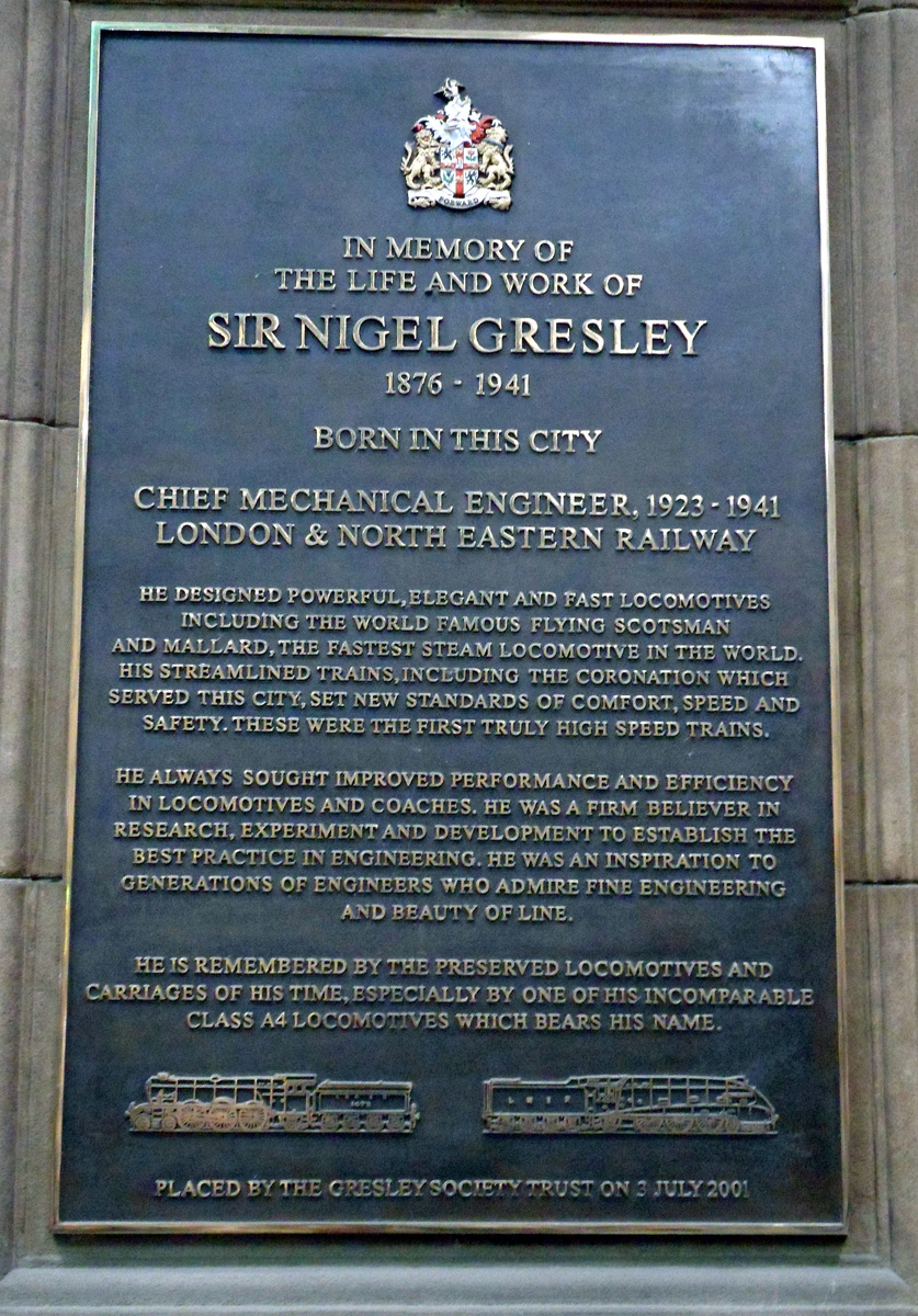 Memorial Plaque to Sir Nigel Gresl;ey at Edinburgh Waverley Railway Station